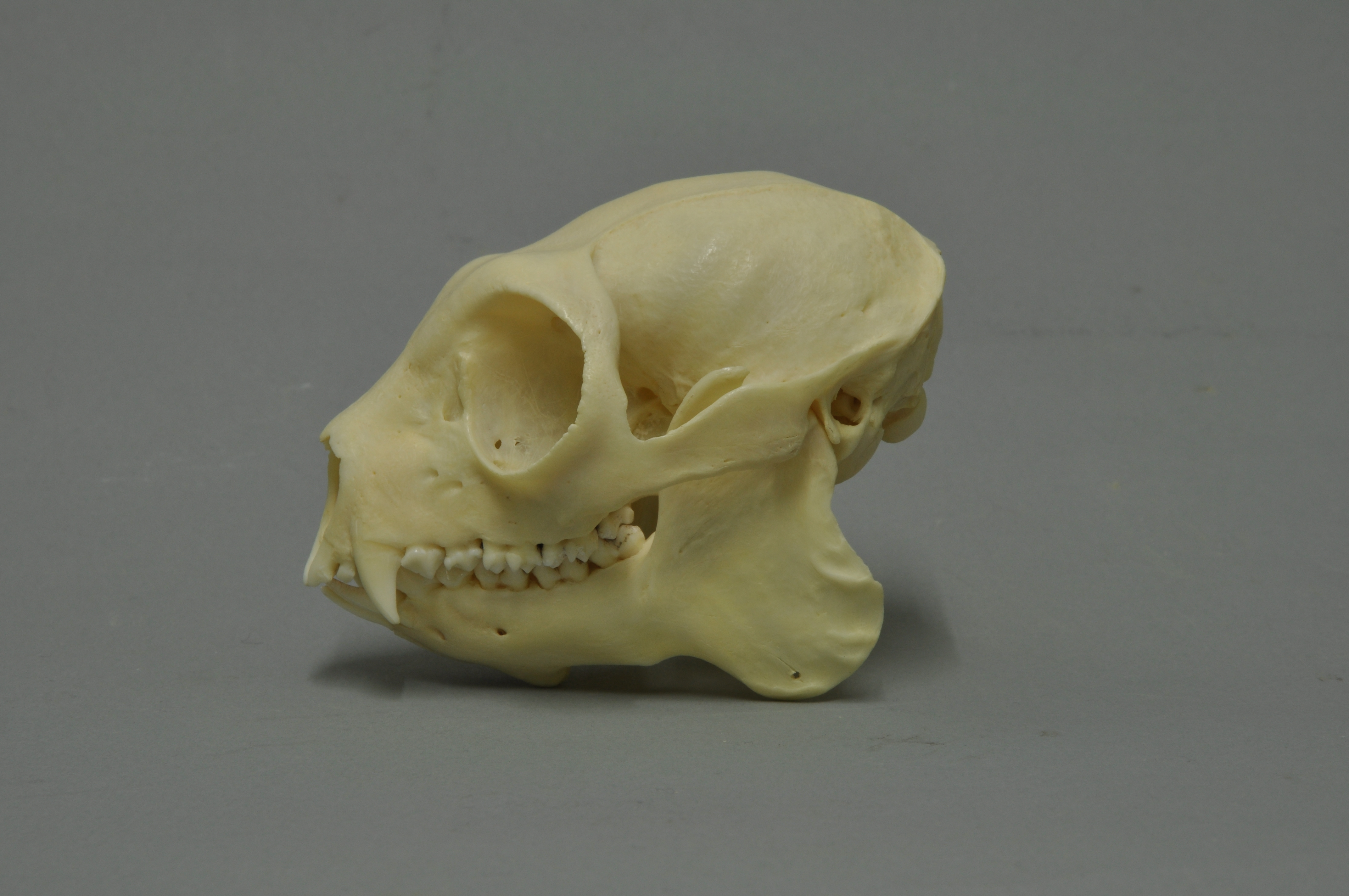 Diademed sifaka Propithecus diadema, skull, Coll. Museum Wiesbaden